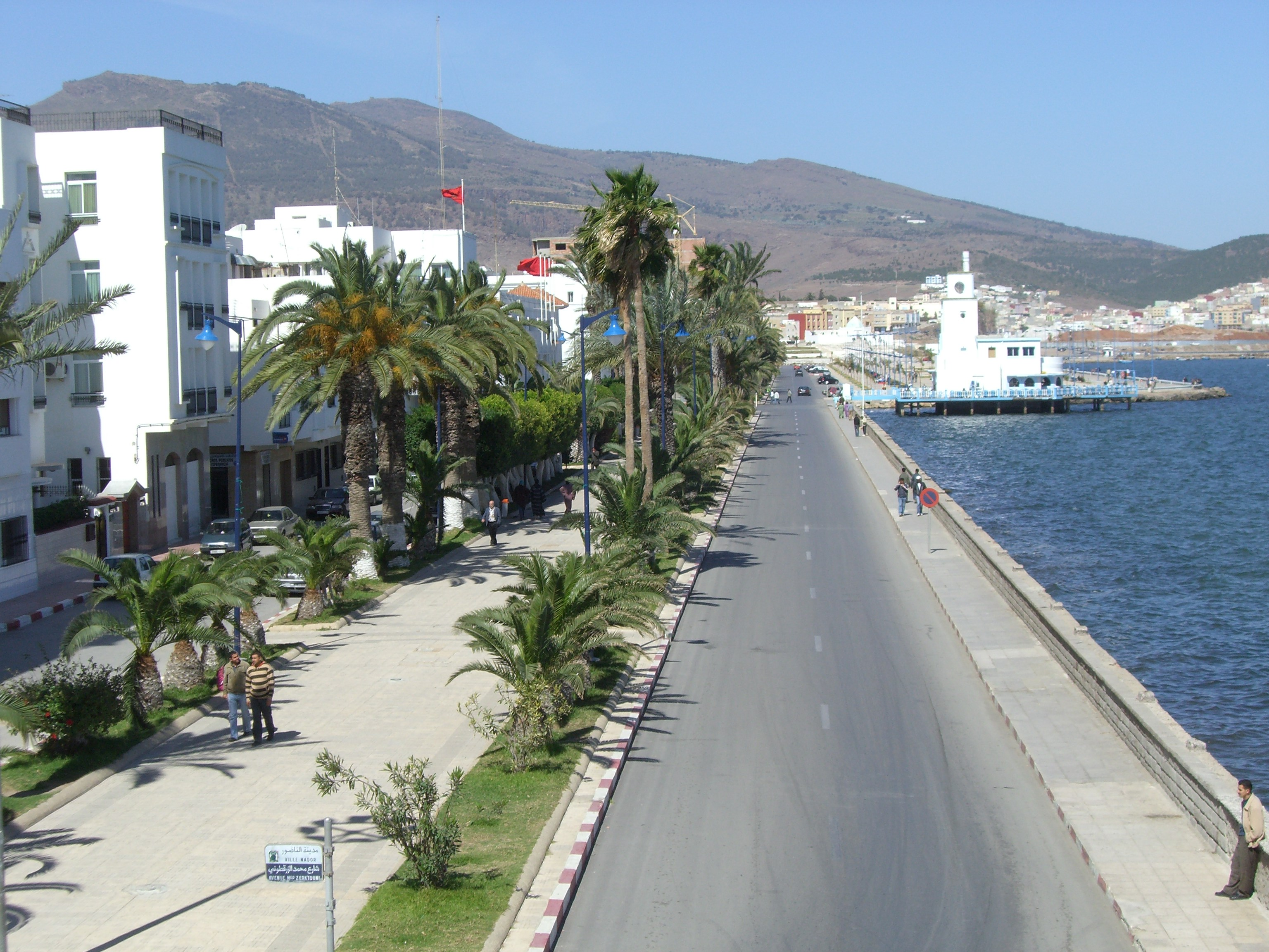 Nador seafront in 2007. Taken from now demolished Rif hotel